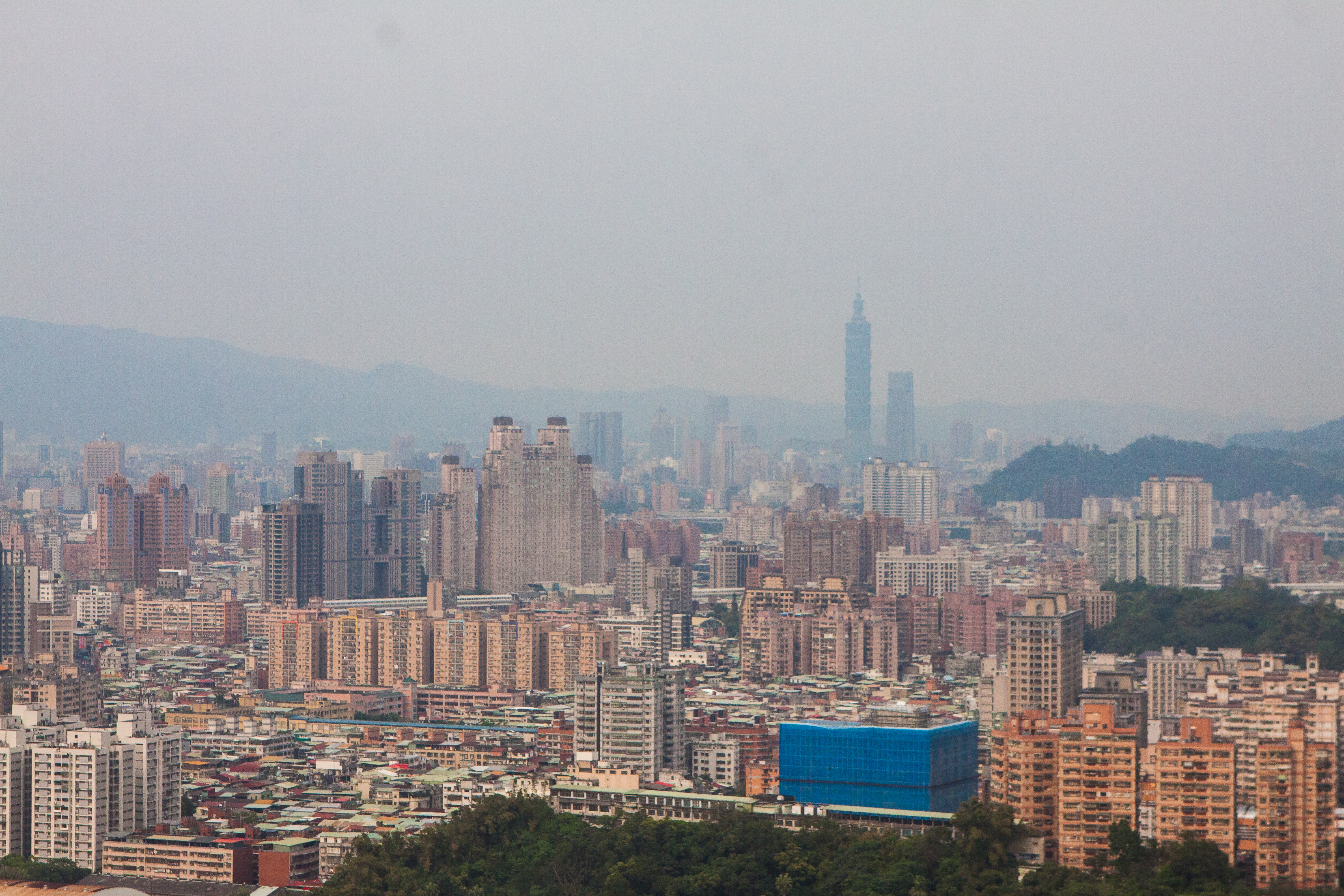 Skyline of Zhonghe District, New Taipei, Taiwan viewed from Hongludi Temple photographed in March 2018